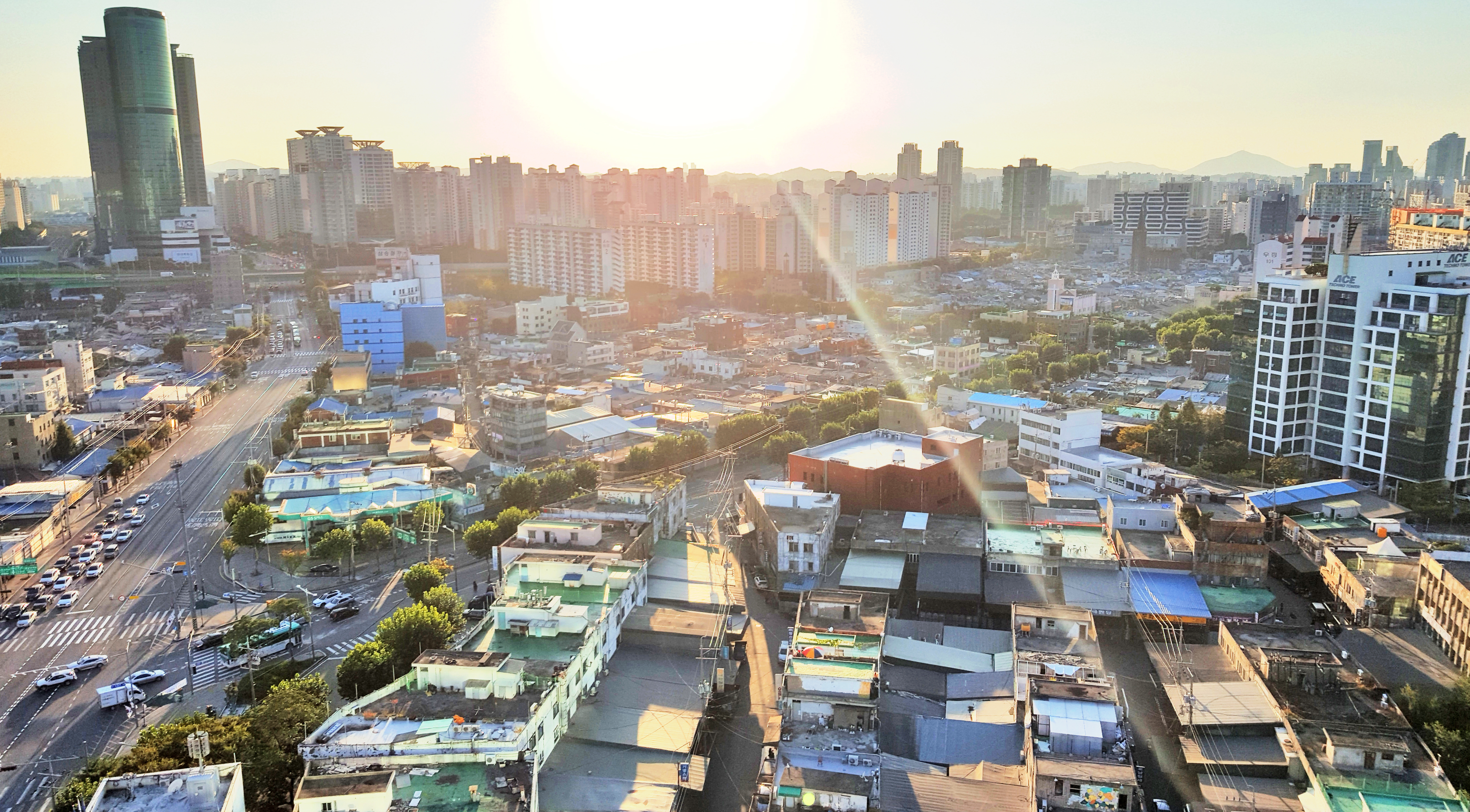 Cityscape of Mullae-dong, Seoul, South Korea